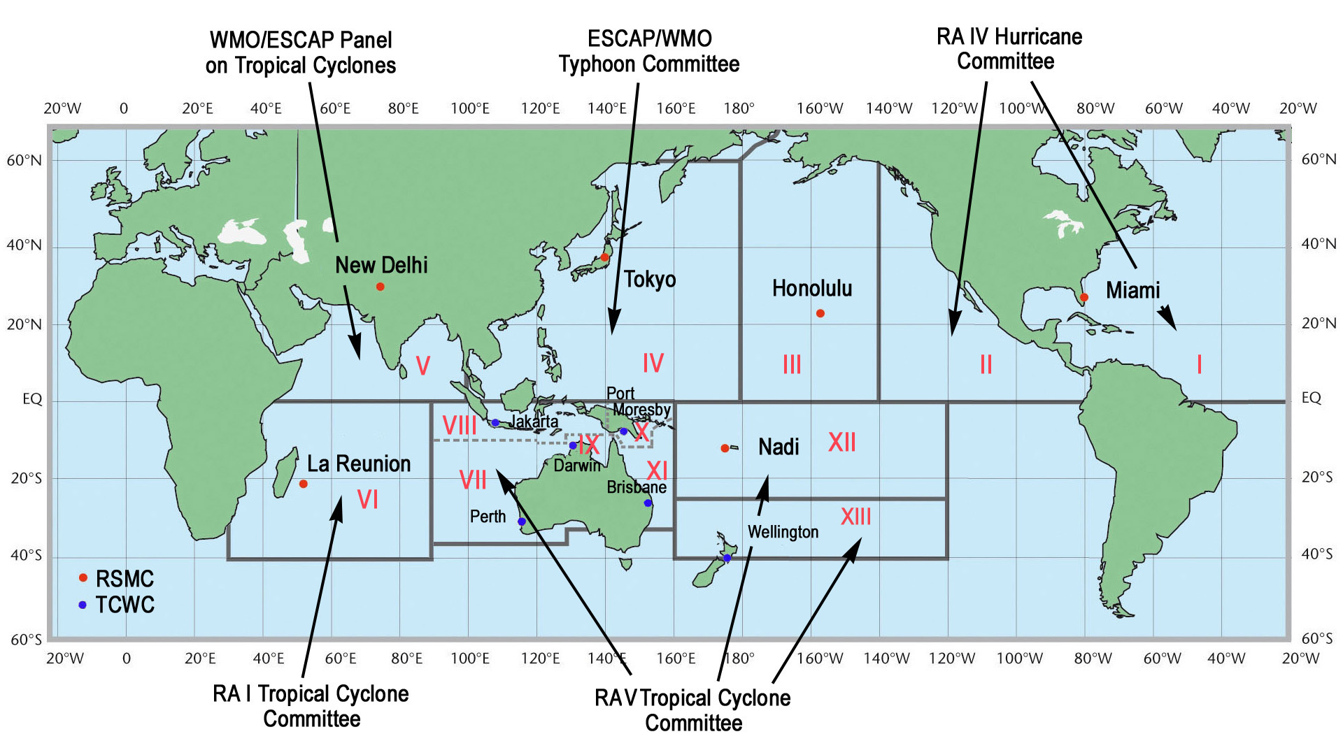 The World Meteorological Organization Tropical Cyclone Programme is tasked to establish national and regionally coordinated systems to ensure that the loss of life and damage caused by tropical cyclones are reduced to a minimum. The following table is a list of the Regional Specialized Meteorology Centers (RSMC) and Tropical Cyclone Warning Centers (TCWC) participating in the WMO Tropical Cyclone Programme. RegionDescriptionCenters (RSMC and TCWC)I-IIAtlantic and Eastern PacificU.S. National Hurricane Center (RSMC Miami)IIICentral PacificU.S. Central Pacific Hurricane Center (RSMC Honolulu)IVNorthwest PacificJapan Meteorological Agency (RSMC Tokyo)VNorth Indian OceanIndia Meteorological Department (RSMC New Delhi)VISouthwest Indian OceanMétéo France (RSMC La Réunion)VII-XISouthwest Pacific and Southeast Indian OceanVII: Australian Bureau of Meteorology (TCWC Perth) VIII: Indonesian Agency for Meteorology (TCWC Jakarta) IX: Australian Bureau of Meteorology (TCWC Darwin) X: Papua New Guinea (TCWC Port Moresby) XI: Australian Bureau of Meteorology (TCWC Brisbane)XII-XIIISouth PacificXII: Fiji Meteorological Service (RSMC Nadi) XIII: Meteorological Service of New Zealand, Ltd. (TCWC Wellington)